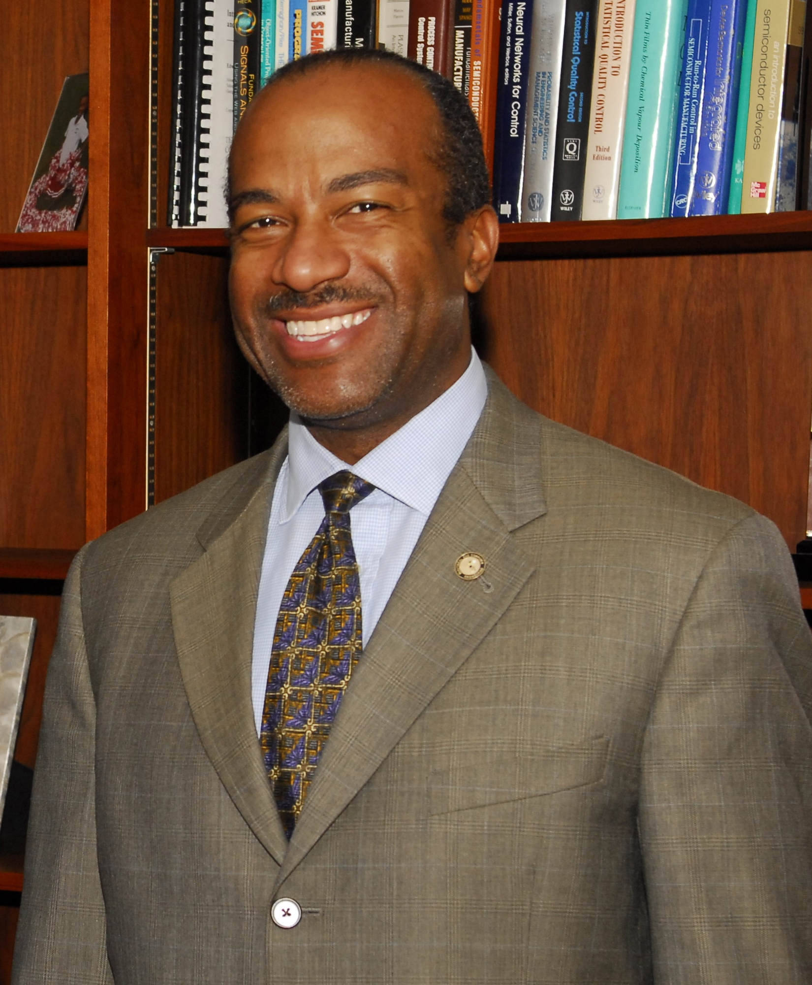 Photo of Gary May